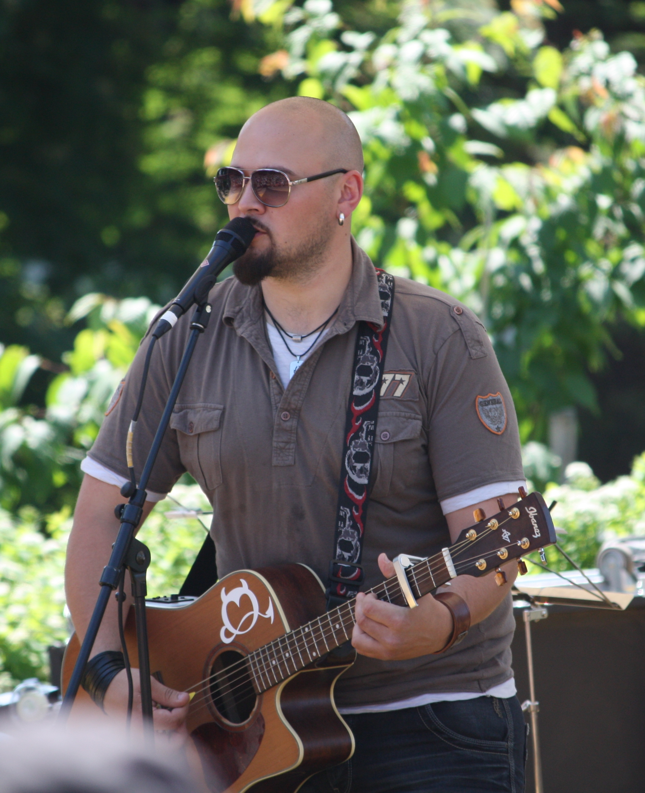 The winner of The Finnish Idols Competition 2011 from Kerava Martti Saarinen was performing on Aurinkomäki stage.